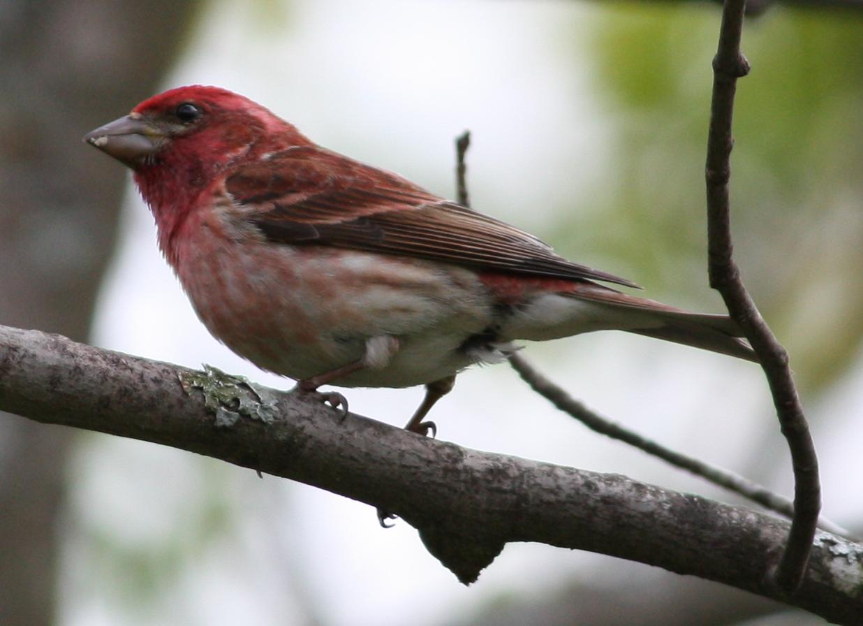 Carpodacus purpureus (purple finch) on a branch. Taken May 18, 2009 in Rindge, NH. Cropped from original version (see below).